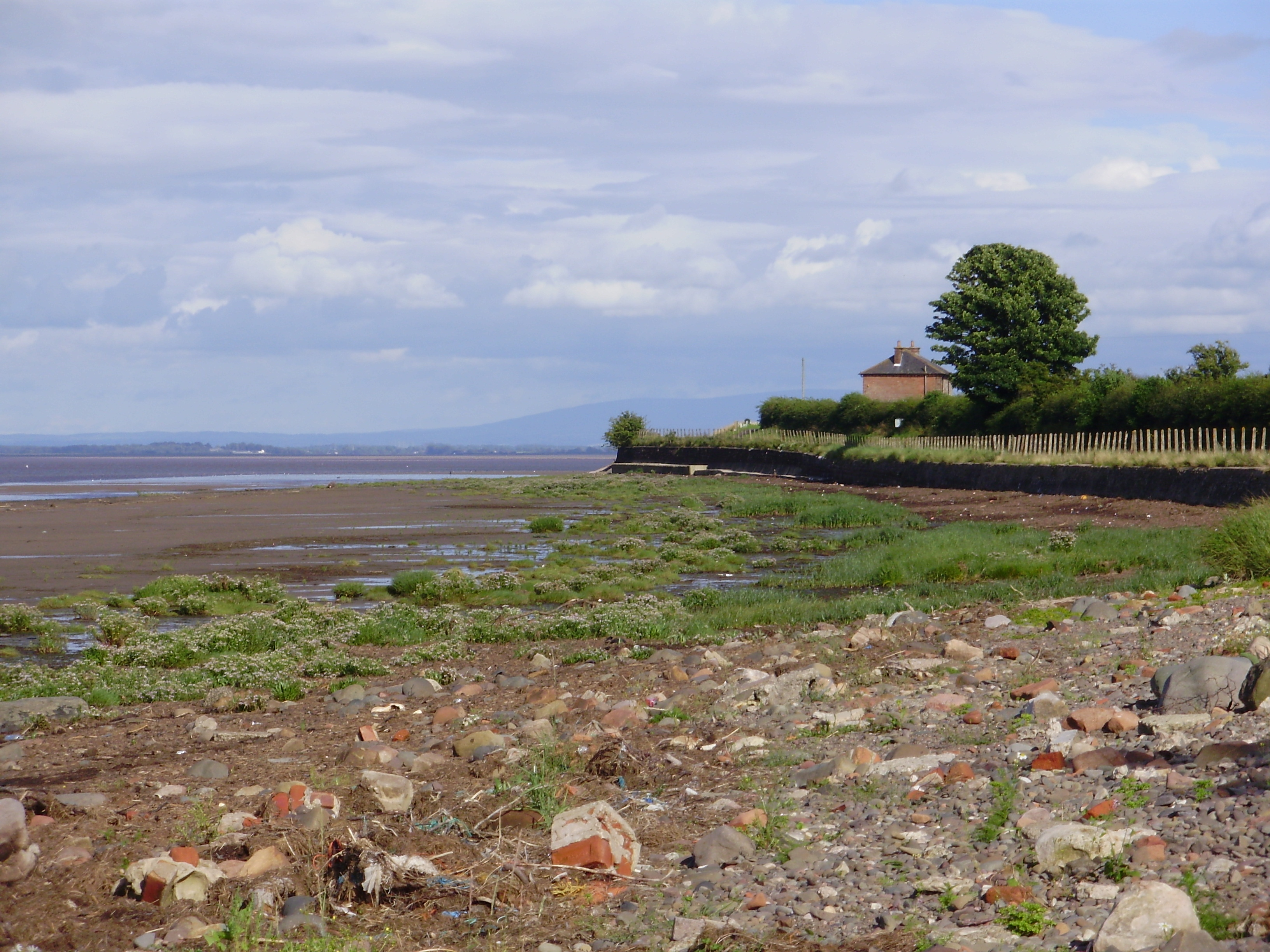 Bowness